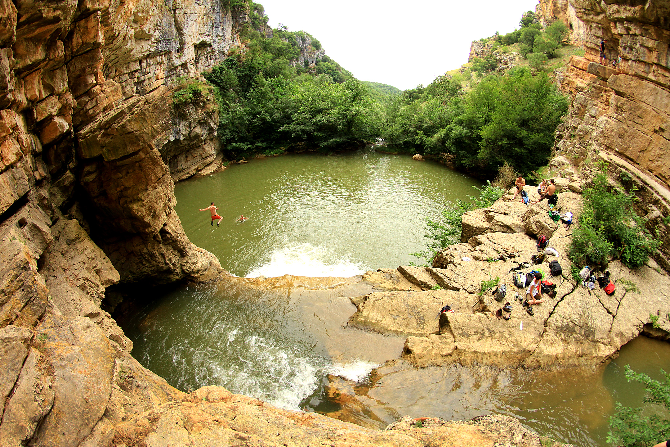 Mirushas 4th lake seen from the unseen view before